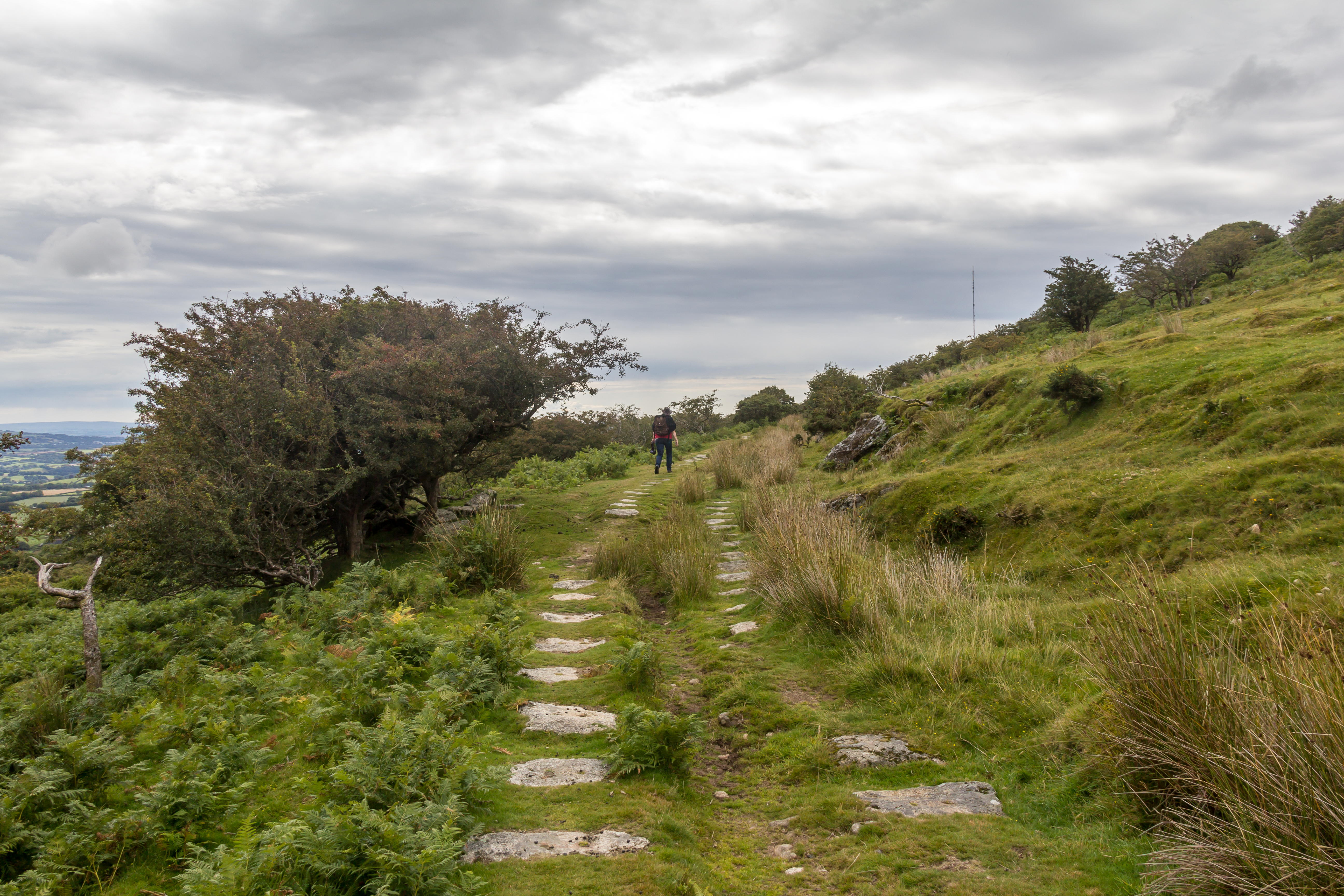 Bodmin Moor, Cornwall. Remains of the Liskeard and Caradon Railway